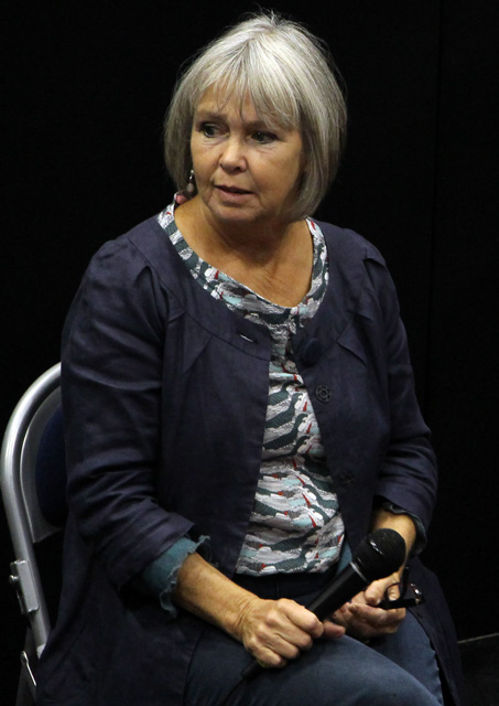 Wendy Padbury at Collectormania Glasgow, August 2015